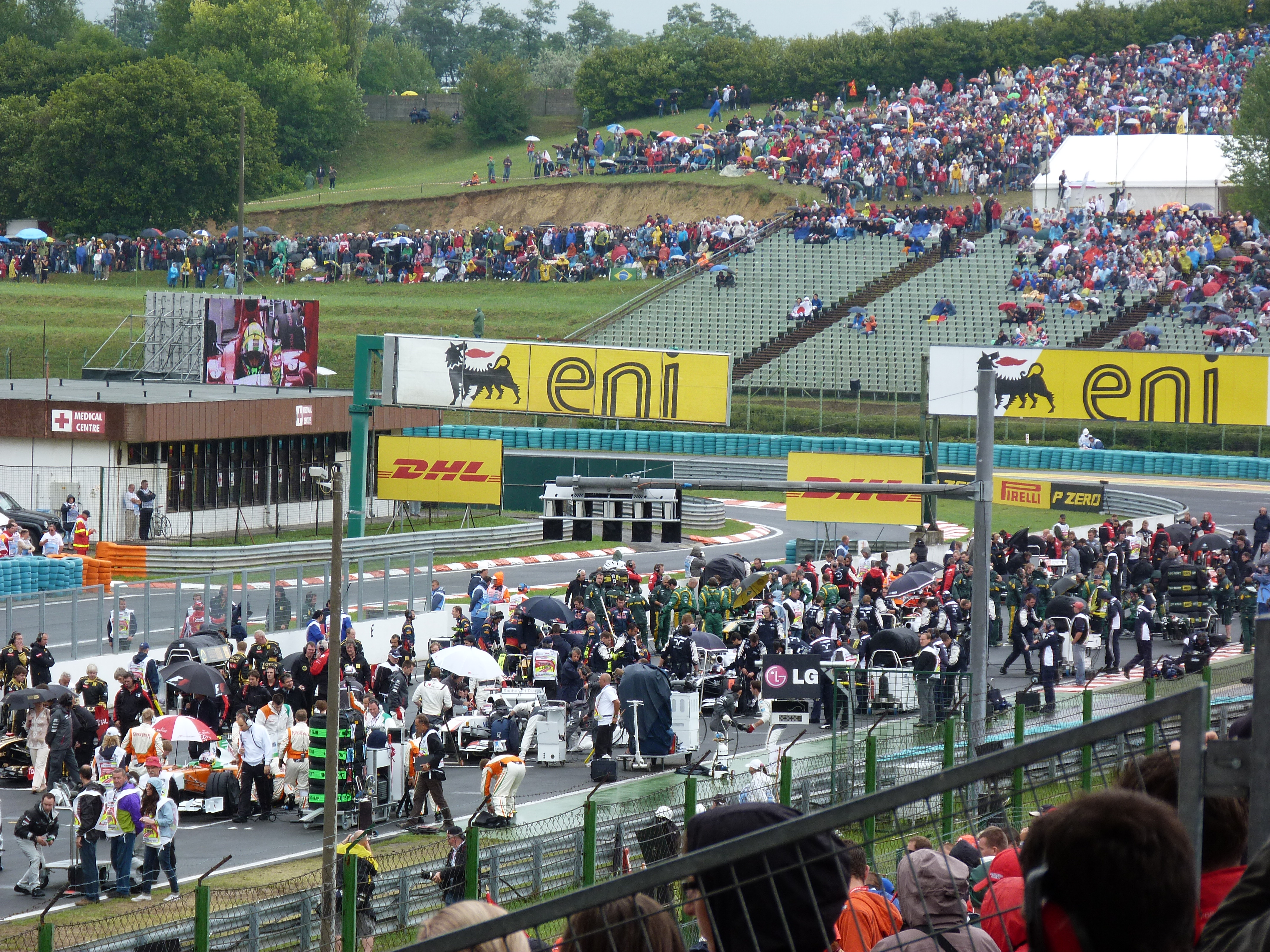 Live on the 31 st of July, 2011. Hungaroring, Mogyoród, Hungary. The 26 th Formula 1 Hungarian Grand Prix started at 2 pm. Before the start. Budapest has always been special place for Jenson Button: it was here that he took his first Grand Prix win five years ago - and it is here that he has taken victory in his 200th Grand Prix. Red Bull's Sebastian Vettel stretched his commanding lead in the championship with a second-place finish in wet conditions Sunday.